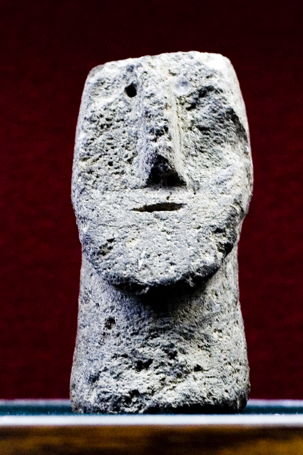 Preurartian god from Karmir Blur